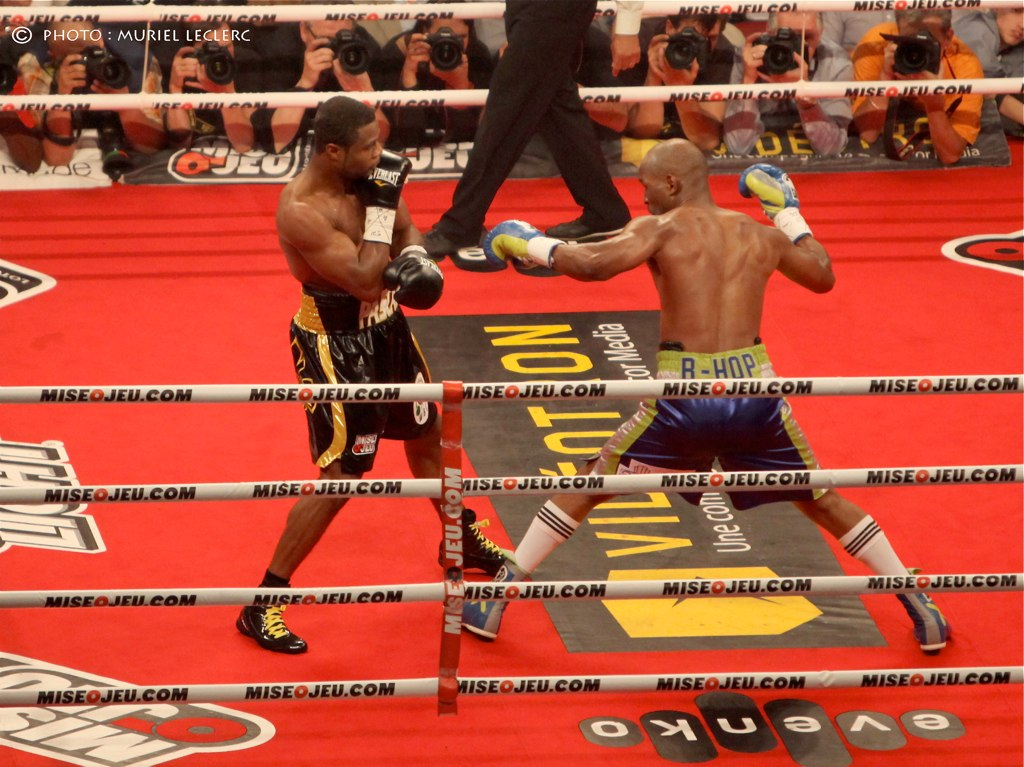 21.05.2011 Fight for the light heavy weight championship Pascal versus Hopkins.